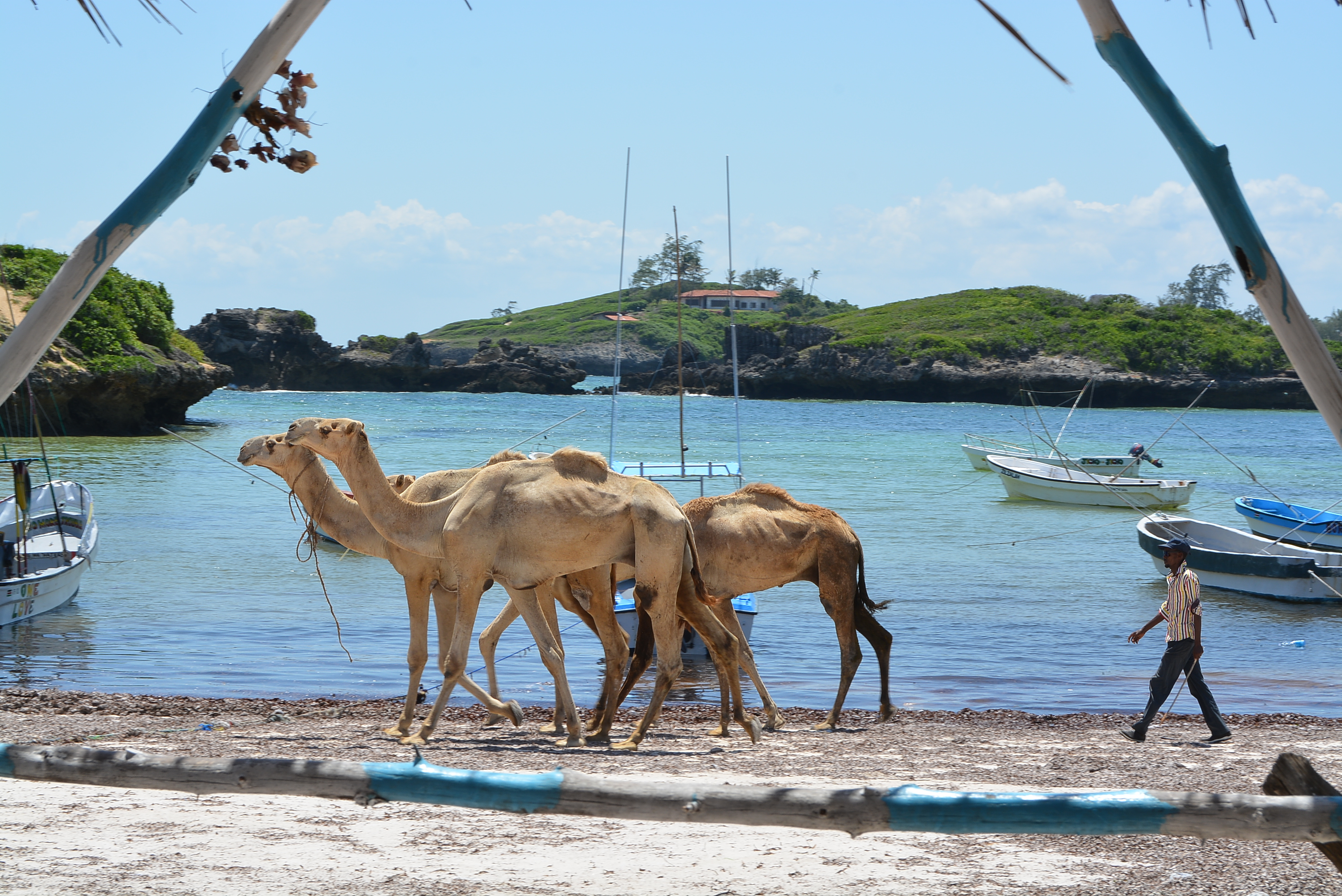 Camels ambling along the beach at Watamu, Kenya This is an image with the theme "Africa on the Move or Transport" from: Kenya